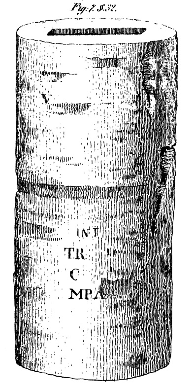 milestone from Erlstätt, historic painting Carl Weishaupt (1841), CIL III 005749